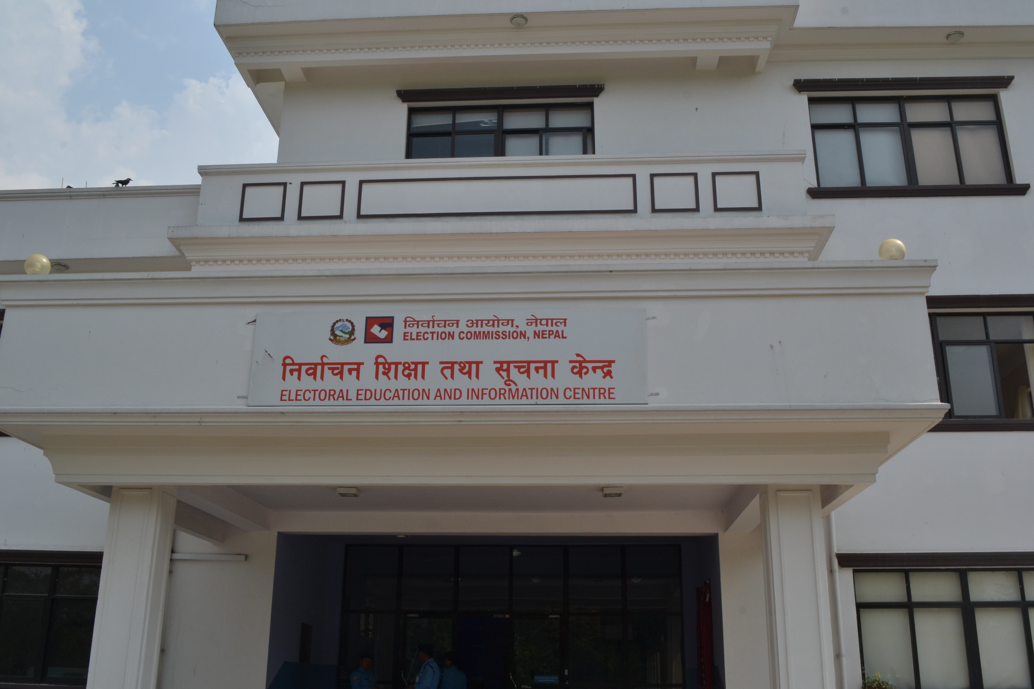 Election Commission of Nepal